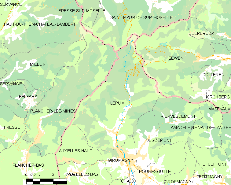 Map of French municipality Lepuix